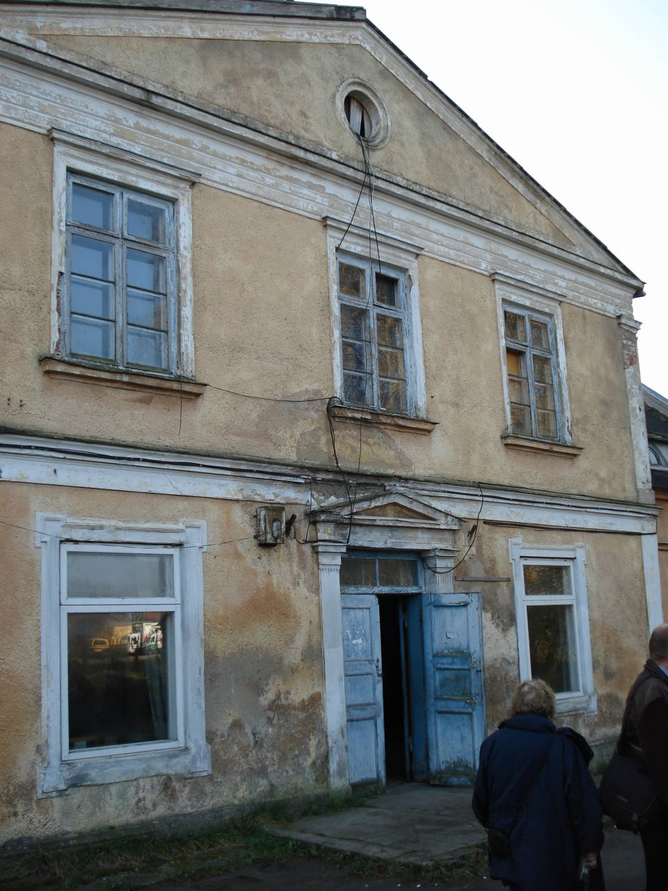 Manor House in Rodniki, Oblast Kaliningrad (before 1945 Preussisch Arnau)